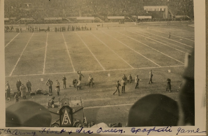 Army Float and WAC Queen